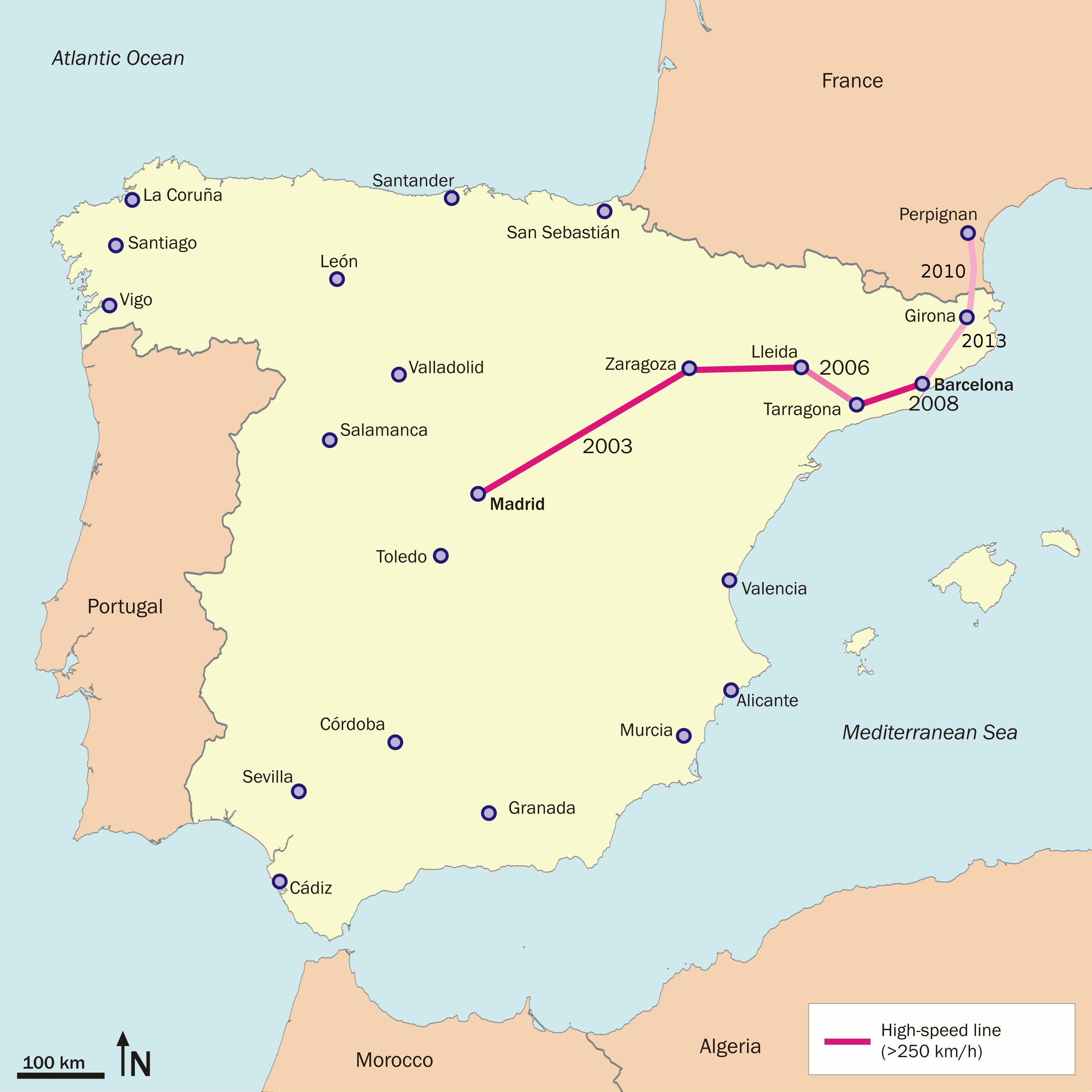 Map of the AVE line from Madrid to Barcelona in Spain. Note: The line is designed for 350 km/h, but so far, the maximum speed is 300 km/h (as of March 2008).